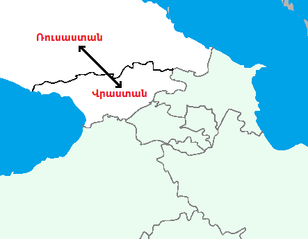 Georgia-Russia border